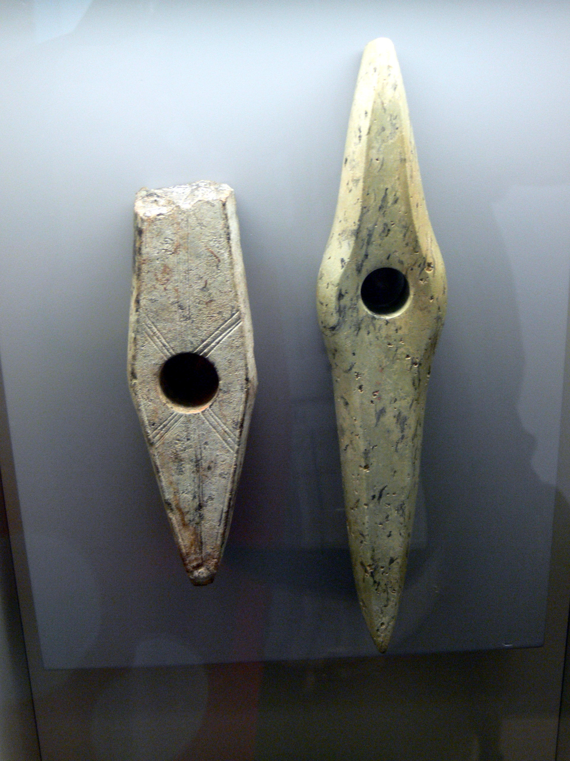 Castle museums in Linz ( Upper Austria ). Archeological collection: Neolithic stone axes, Corded ware culture, ca. 2500 BC.